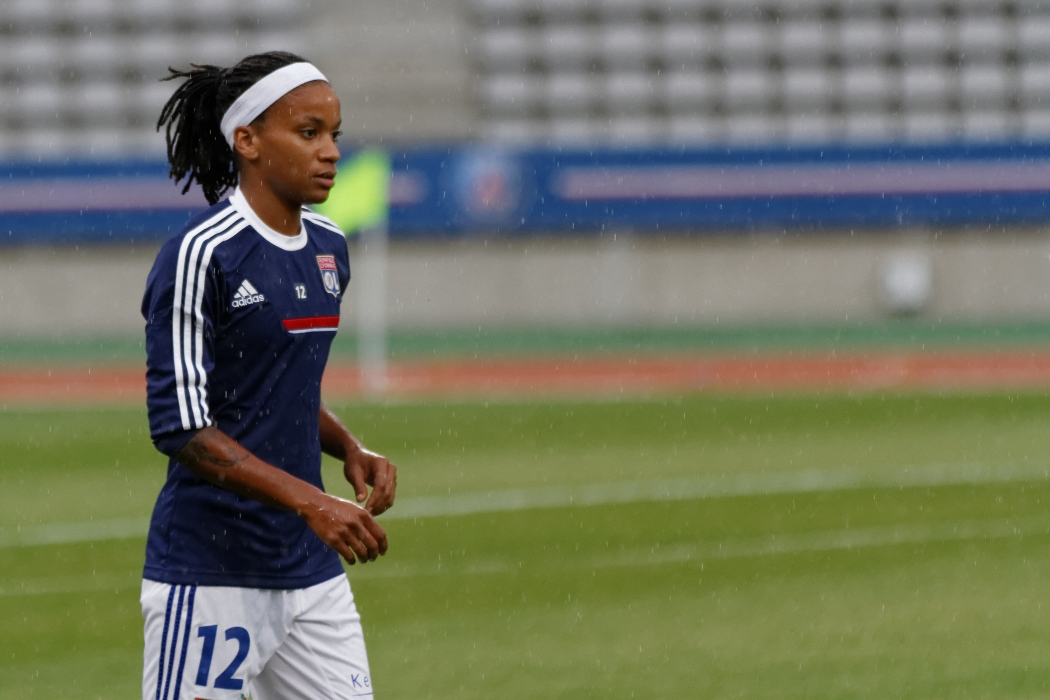 PSG-Lyon, September 29th, 2013.